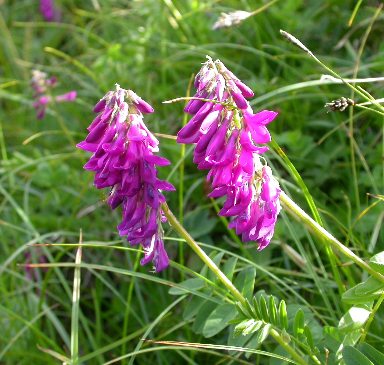 Flowering Hedysarum hedysaroides, near Diablerets, Switzerland